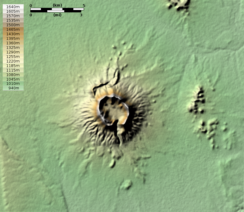 Shaded relief map of Brukkaros Mountain in Namibia based on SRTM elevation data.